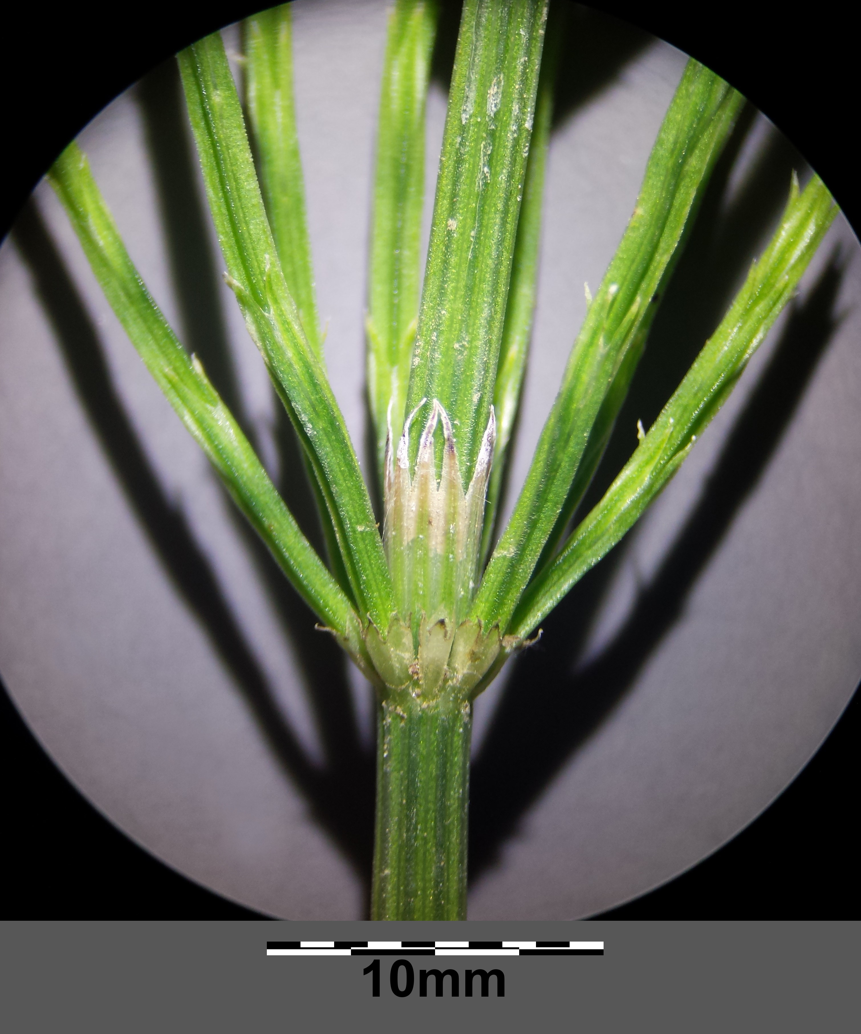 Stem with branches (sterile stem) Taxonym: Equisetum arvense subsp. arvense ss Fischer et al. EfÖLS 2008 ISBN 978-3-85474-187-9 Location: near Niederhollabrunn, district Korneuburg, Lower Austria - ca. 350 m a.s.l. Habitat: field